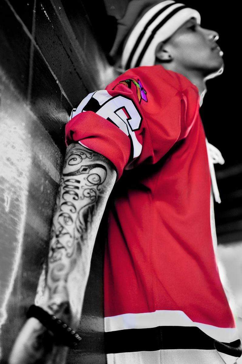 Publicity photo